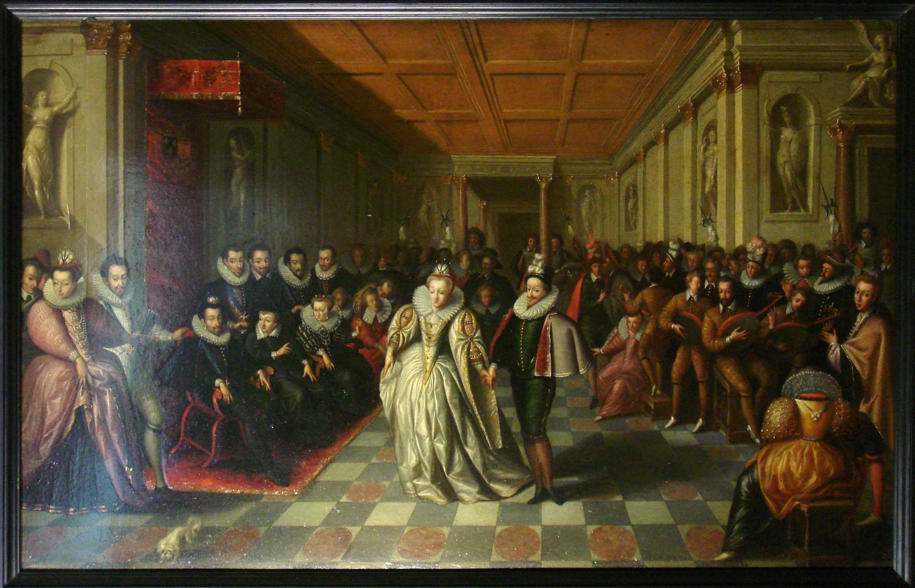 Evening ball for the wedding of Anne, Duke of Joyeuse and Marguerite de Vaudémont, on September 24, 1581. Painted in 1582-1582.